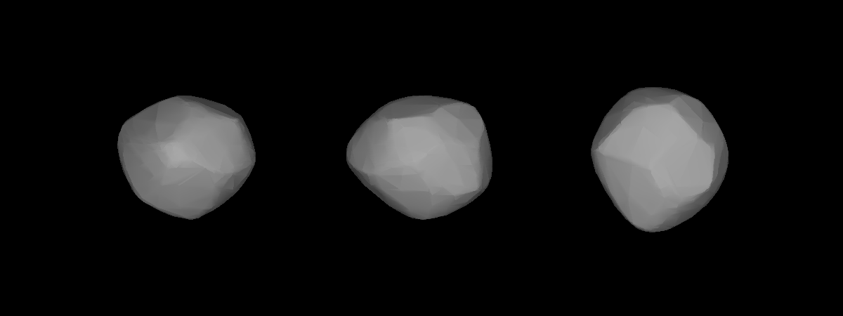 A three-dimensional model of 94 Aurora that was computed using light curve inversion techniques.